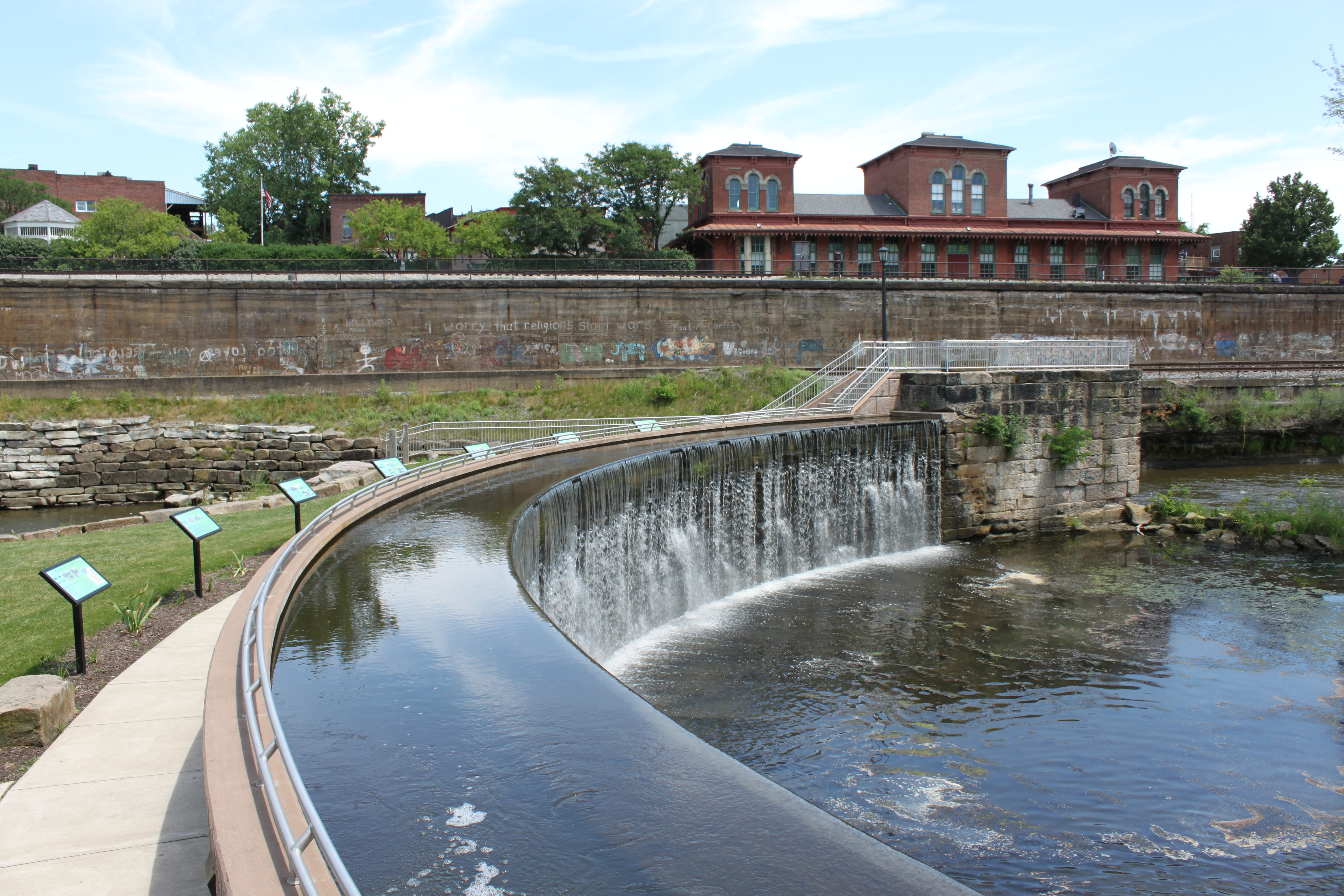 Landmarks within the Kent Industrial District including the 1875 rail depot which now serves as the Pufferbelly Restaurant and the 1836 arch dam, which was originally part of the Pennsylvania and Ohio Canal along the Cuyahoga River in downtown Kent, Ohio.